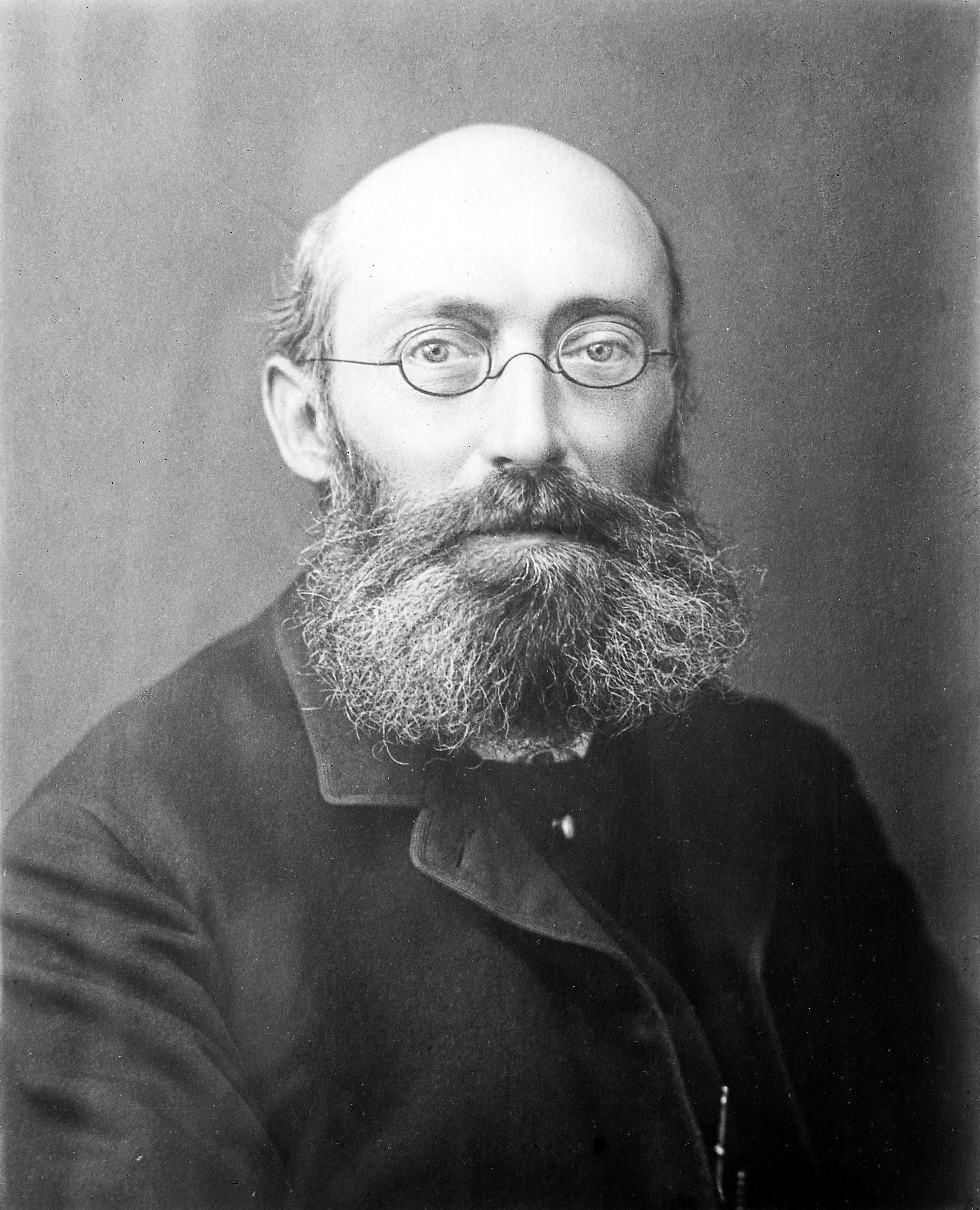 Portrait of Sir George Buchanan, from an original photograph in the W.H.M.M & L. Iconographic Collections Keywords: George Buchanan